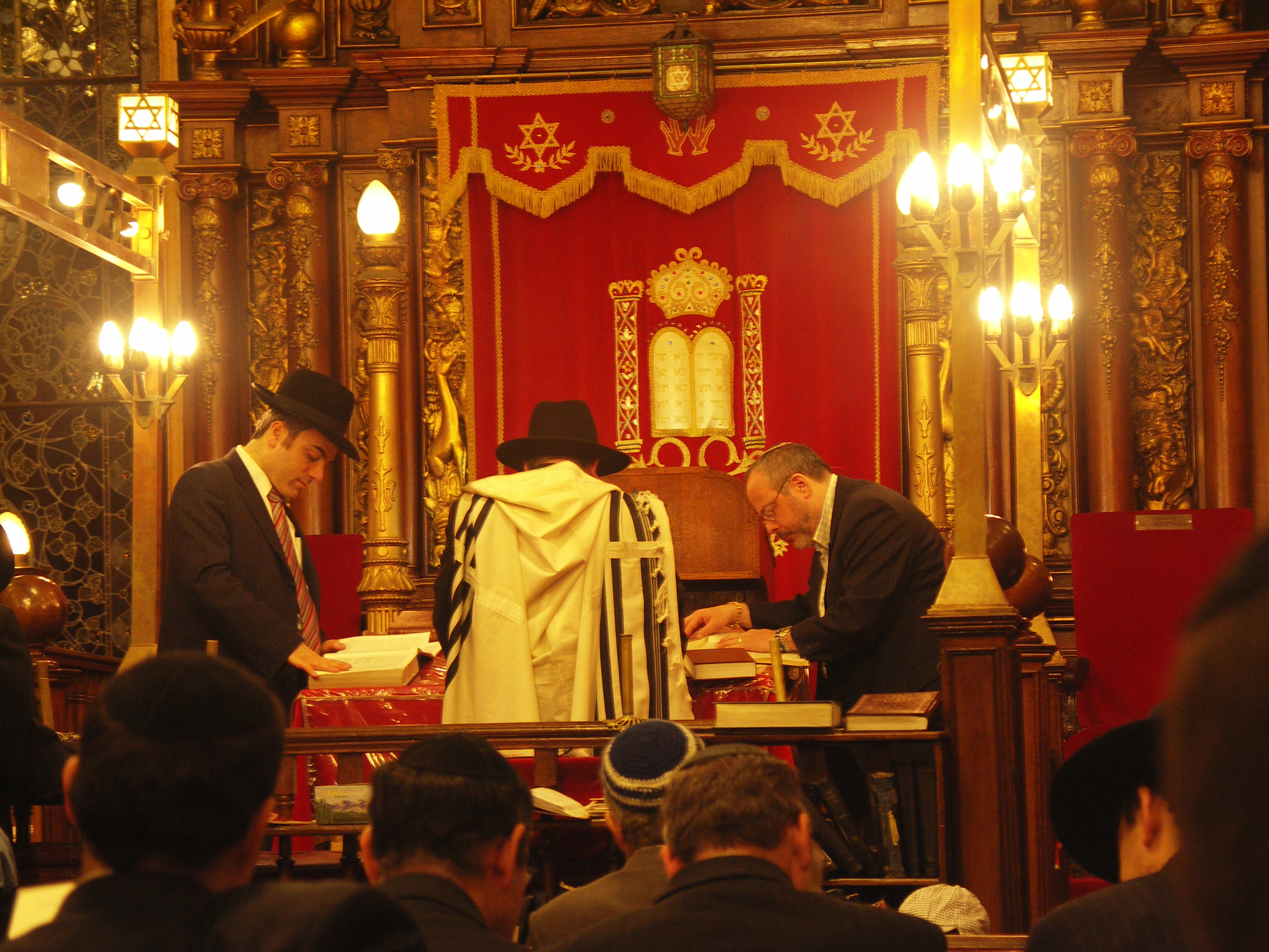 Bimah in use at Bialystoker 2007